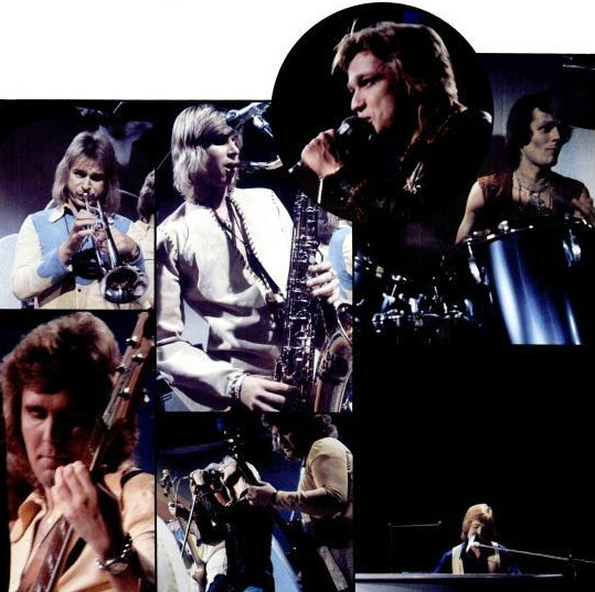 Advertisement for the musical Group Blue Swede.